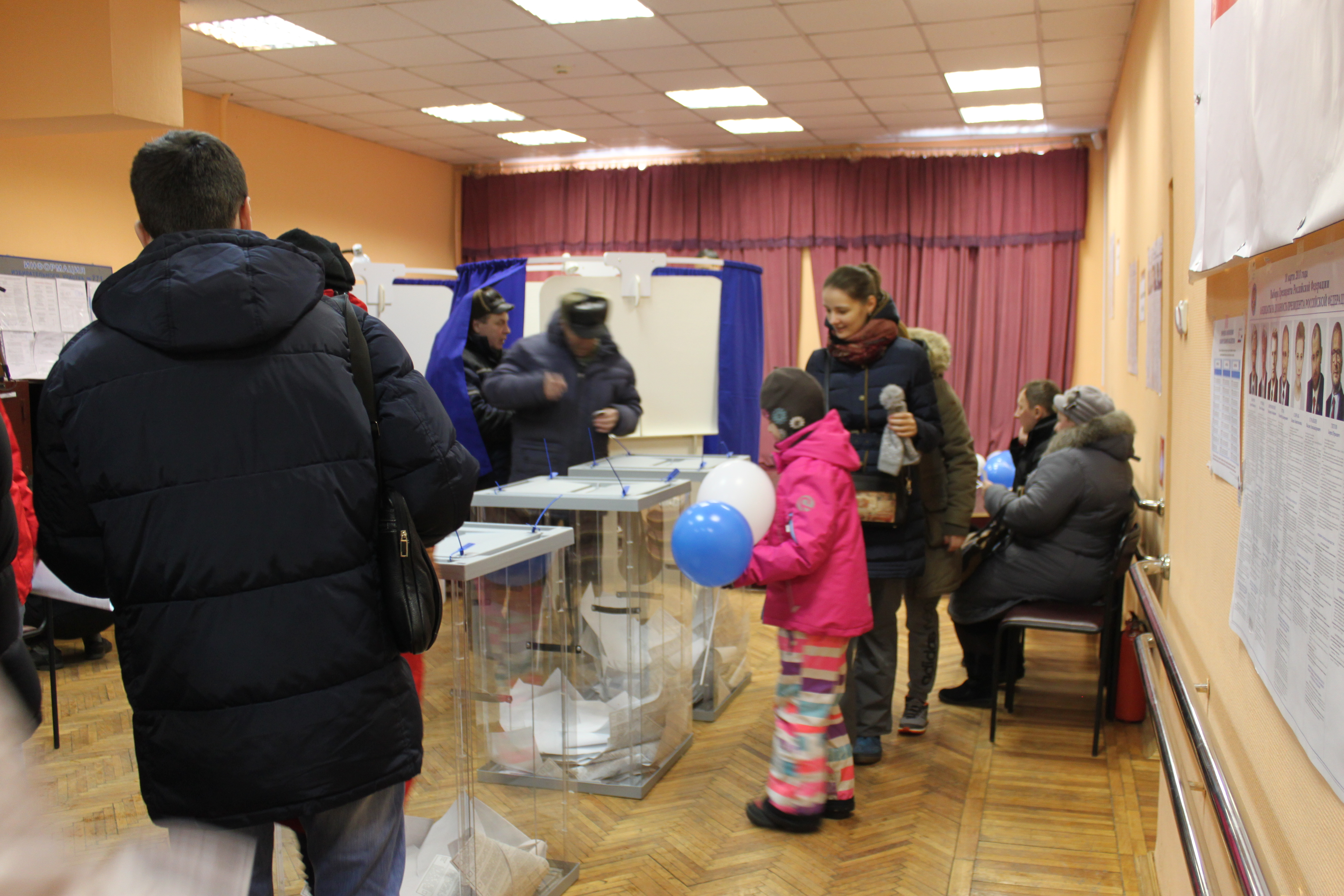 Russian presidential election 2018.